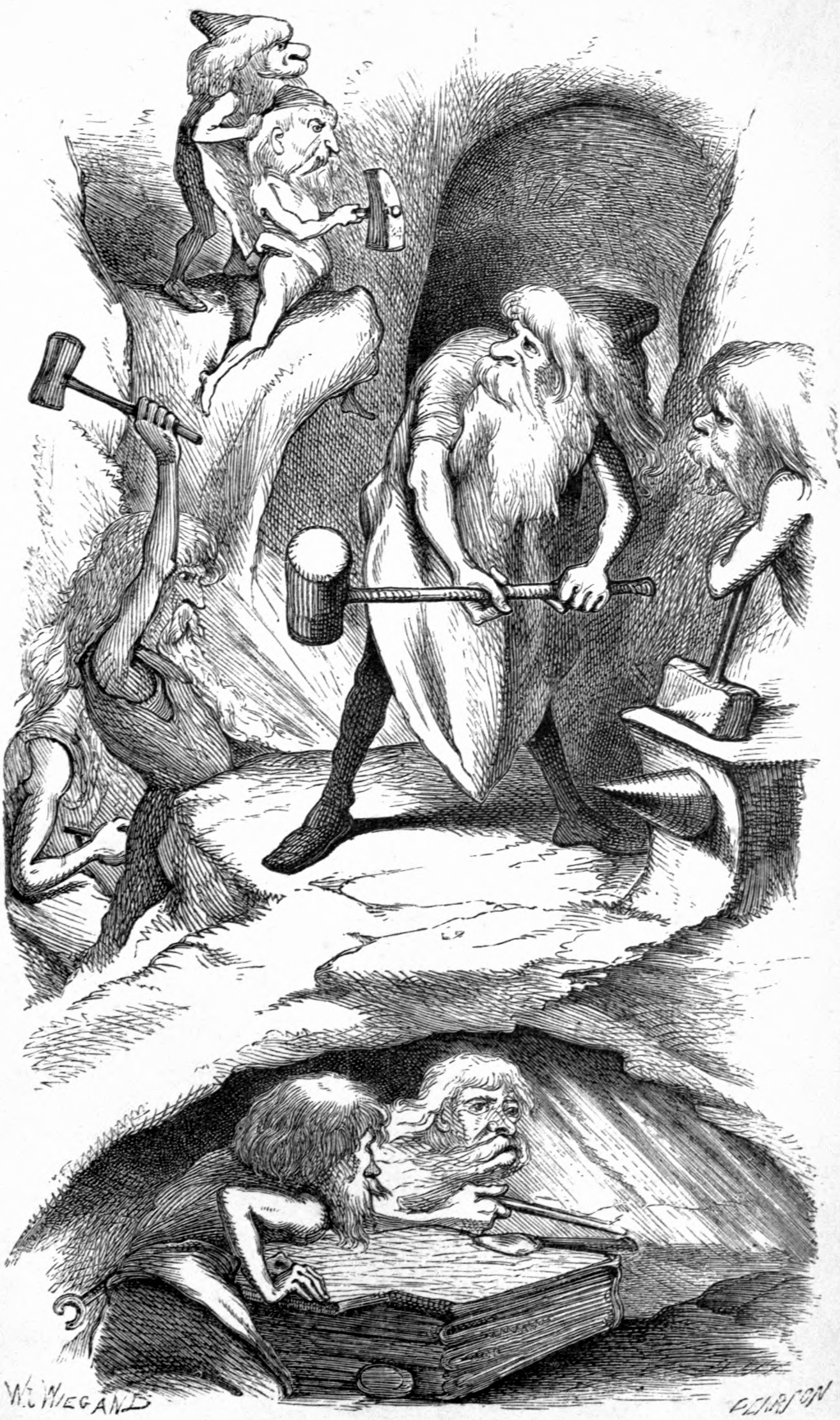 The Dwarfs at Work (the title in the list of illustrations).